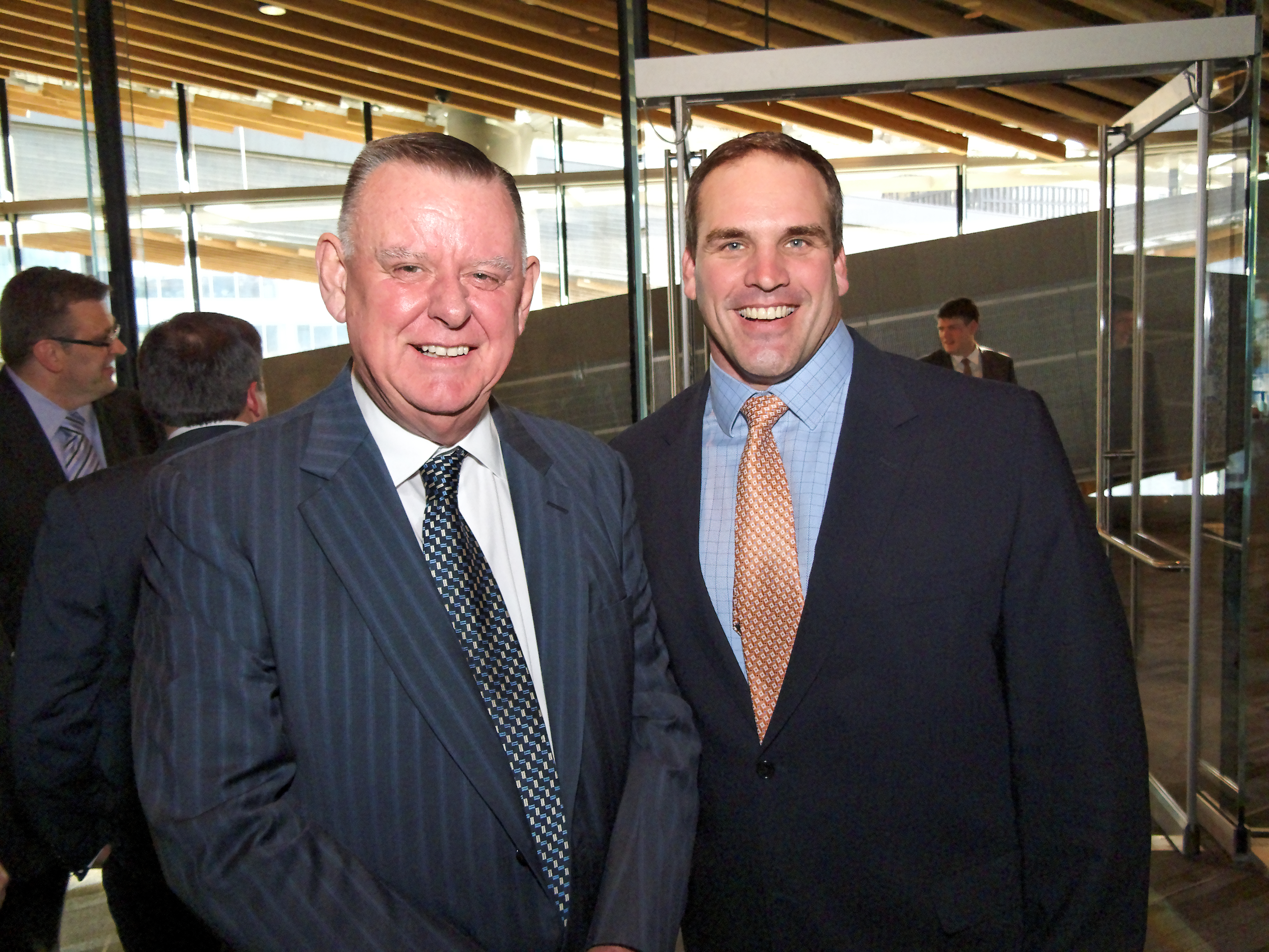 David Braley and former BC Lions CFL veteran Jamie Taras at the 7th Annual Orange Helmet Awards Dinner celebrating grassroots football in British Columbia, Canada, at the Vancouver Convention Centre in early April 2010. This photo was taken by Raj Taneja of the Urban Mixer blog site.